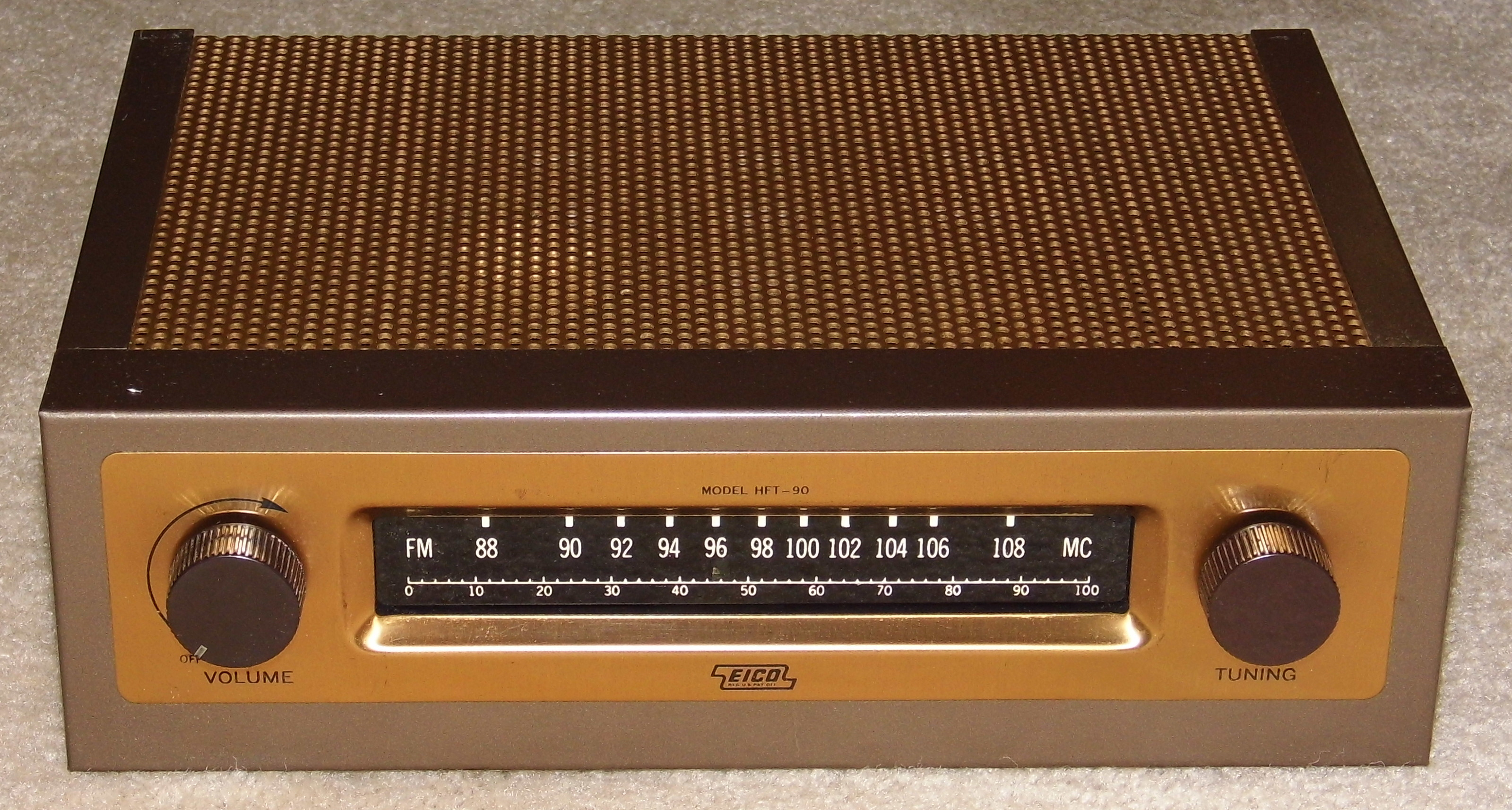 The 8 tubes are: ECC85, 6AU6, 6AU6, 6AU6, DM70, 6AL5, 6C4 and 6X4.